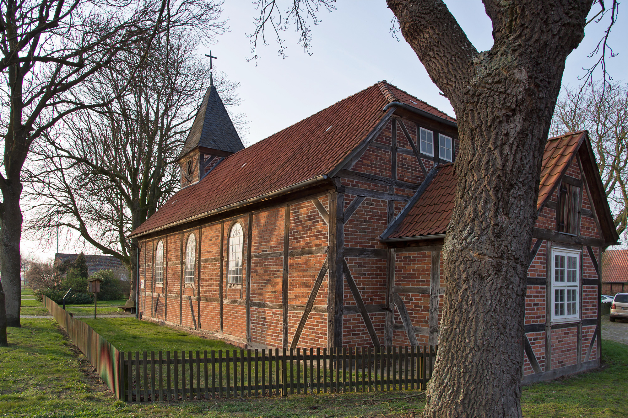 Chapel of the small village Meetschow (district Lüchow-Dannenberg, northern Germany).